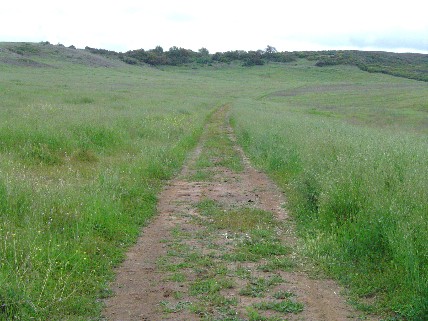 The native California bunchgrass prairie at the Santa Rosa Plateau preserve. Santa Ana Mountains — Riverside County, California